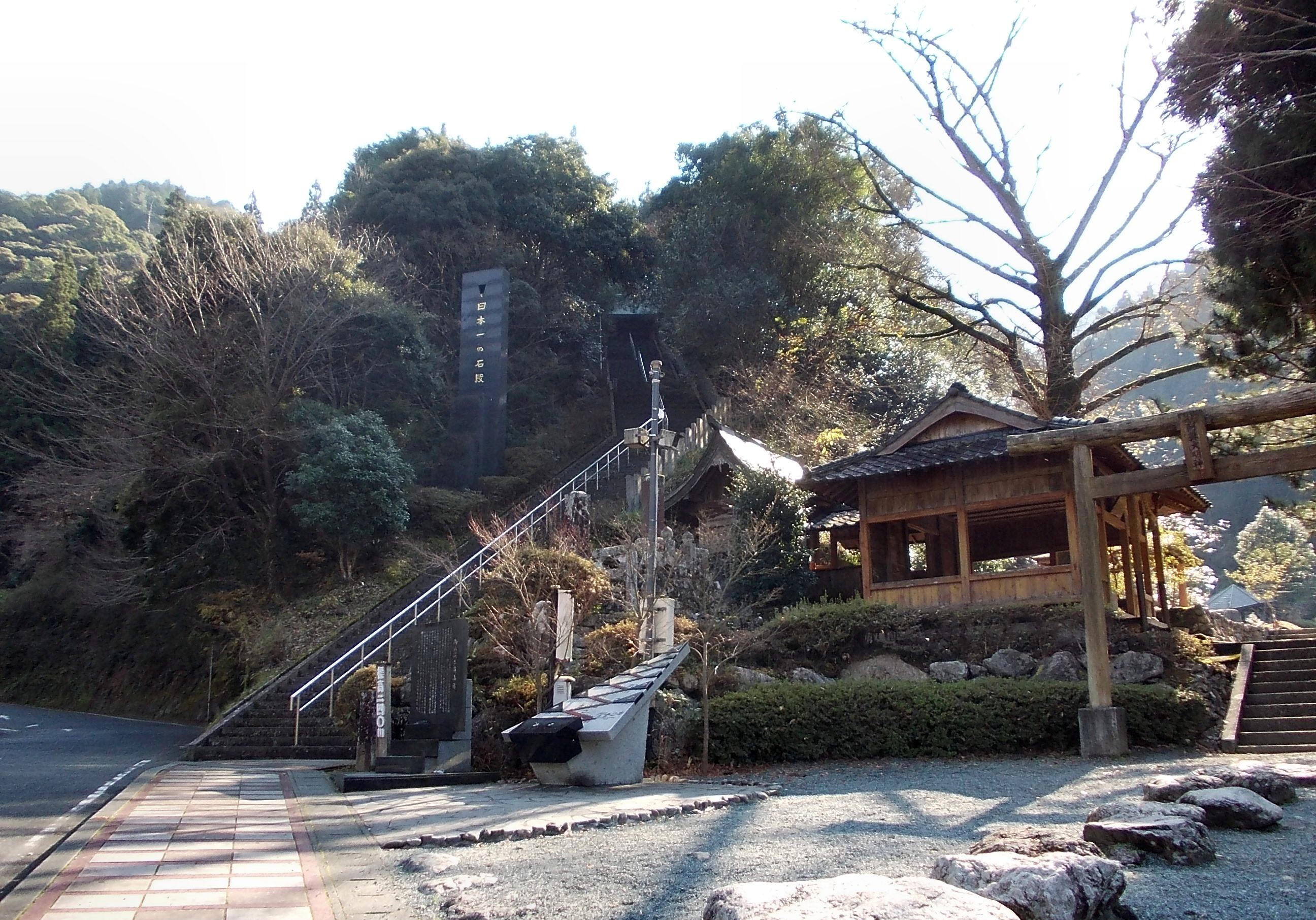 The "number one" stone stairway with a total of 3,333 steps in Misato, Kumamoto, Japan.